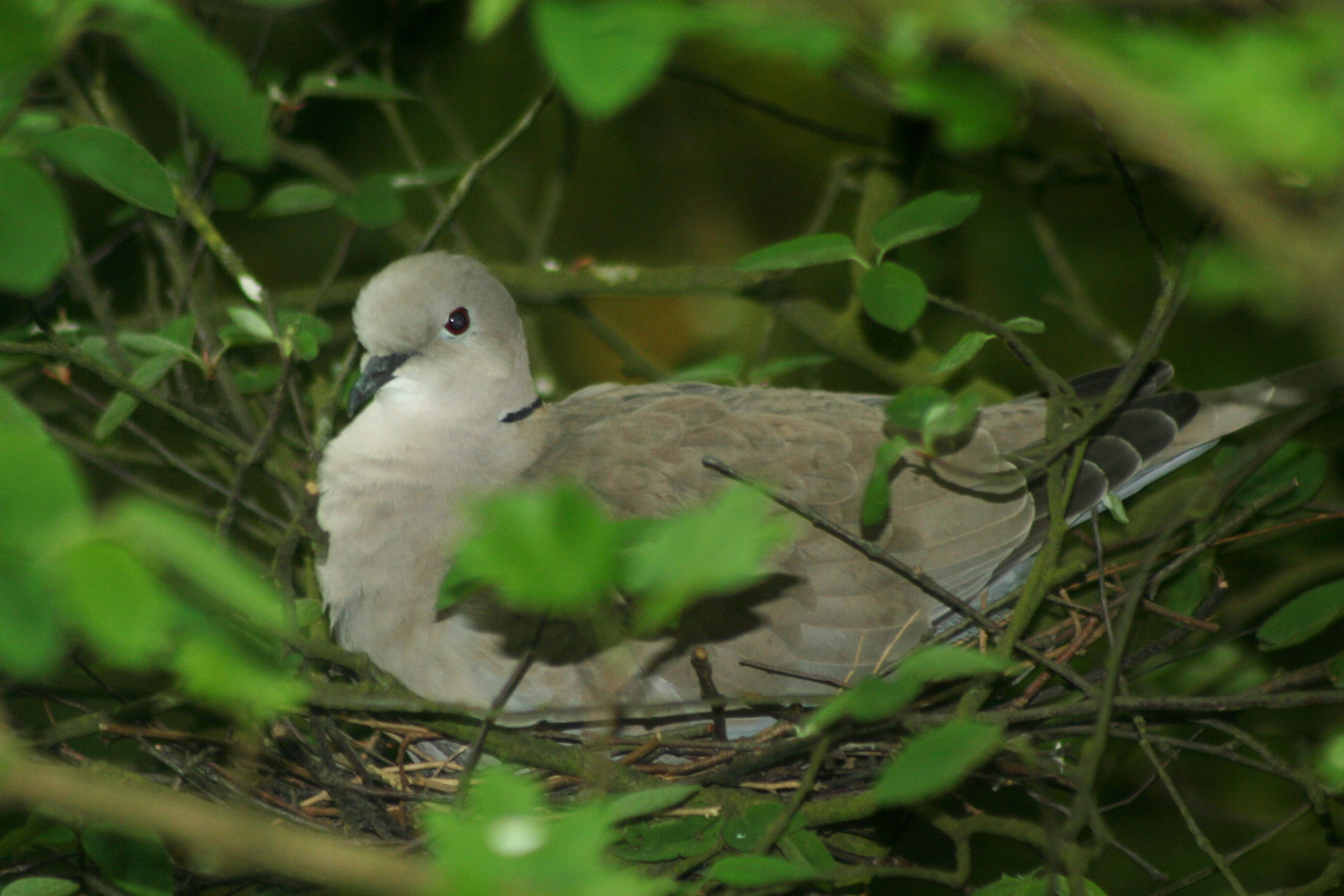 Female Streptopelia decaocto (Frivaldszky, 1838) brooding in a garden in Wageningen, Netherlands. Common name: Collared Dove.